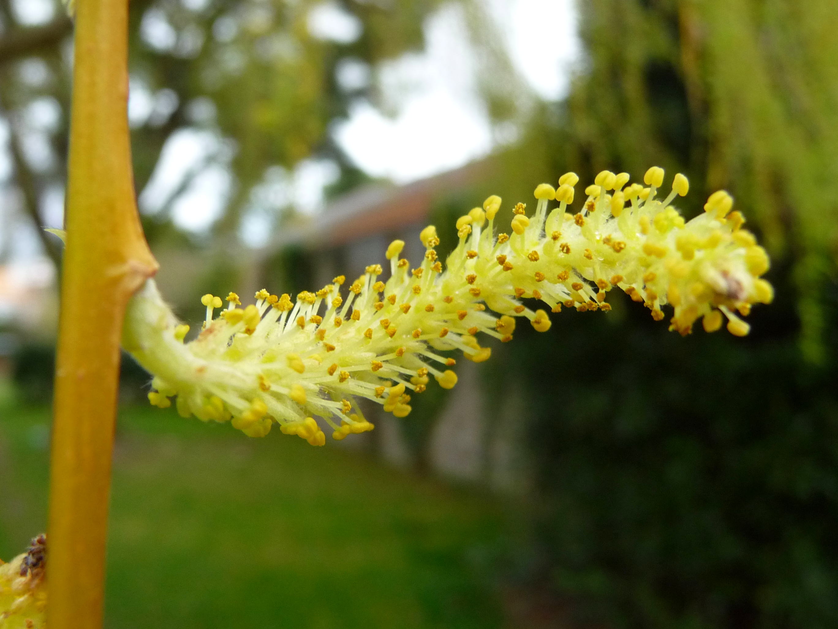 Salix babylonica inflorescence